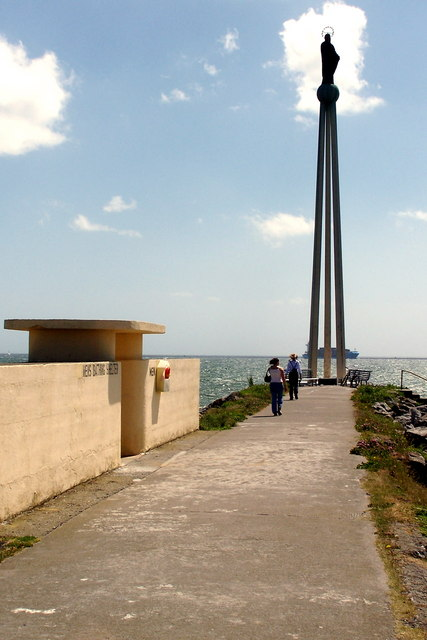 North Bull Breakwater, Dollymount, Dublin Ireland Looking toward the Our Lady, Star of the Sea statue at the very end of the North Bull Breakwater.